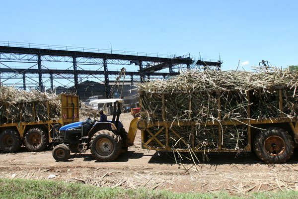 farming